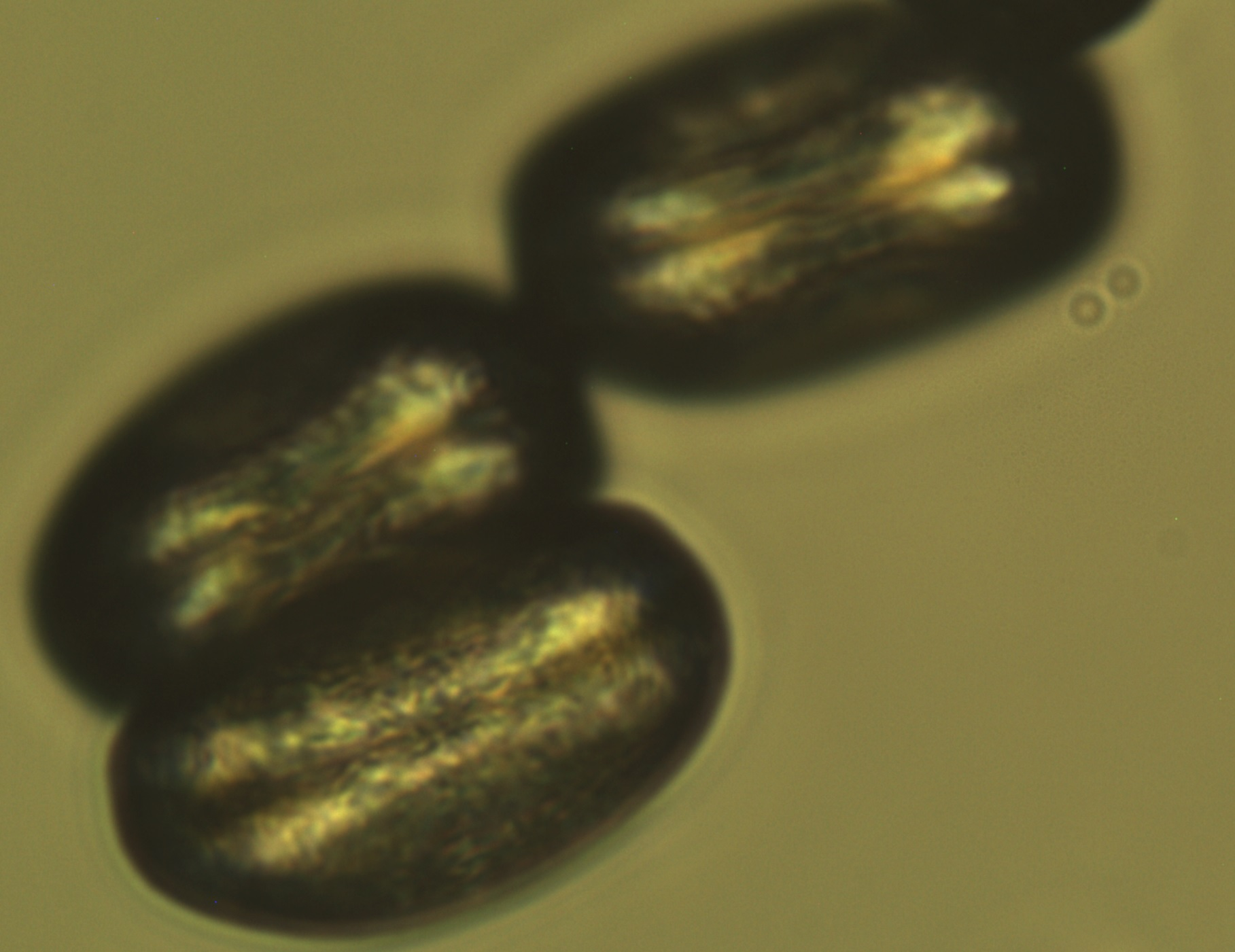 Cornus mas Pollen 400x